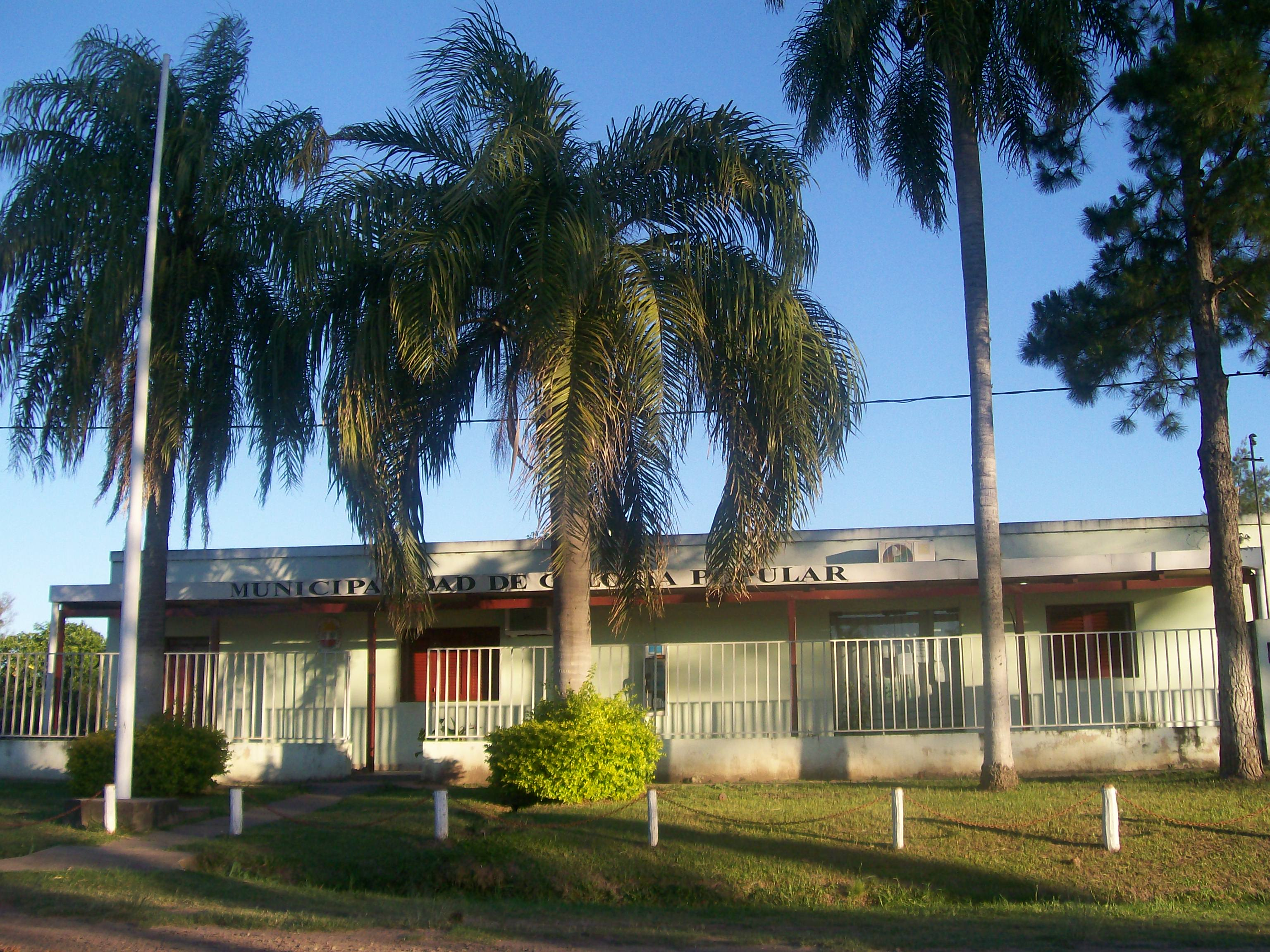 Town hall of Colonia Popular, Chaco Province, Argentina.